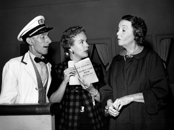 Photo of Jimmy Fairfax as Cedric, the ship's steward, Gale Storm as Susanna Pomery, the ship's cruise director, and ZaSu Pitts as Elvira Nugent, the ship's beautician from the television program The Gale Storm Show. Susanna finds a code book in the belongings of an older female passenger, and shows her find to Cedric and "Nugey".